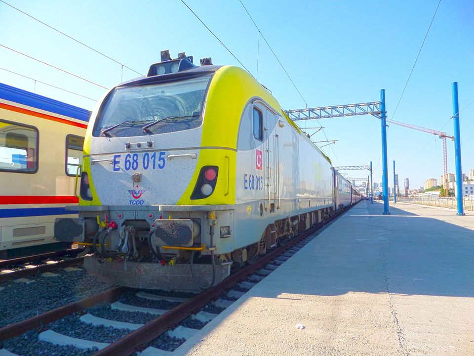 The Istanbul-Sofia Express waiting to depart Halkali station.